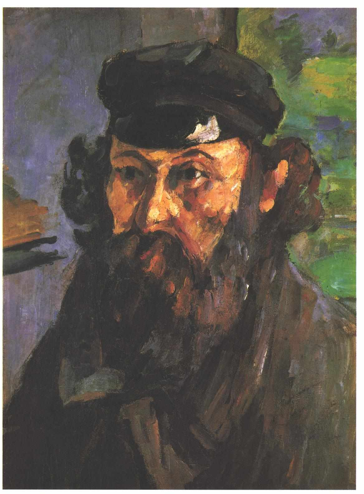 Self-Portrait in a Casquette